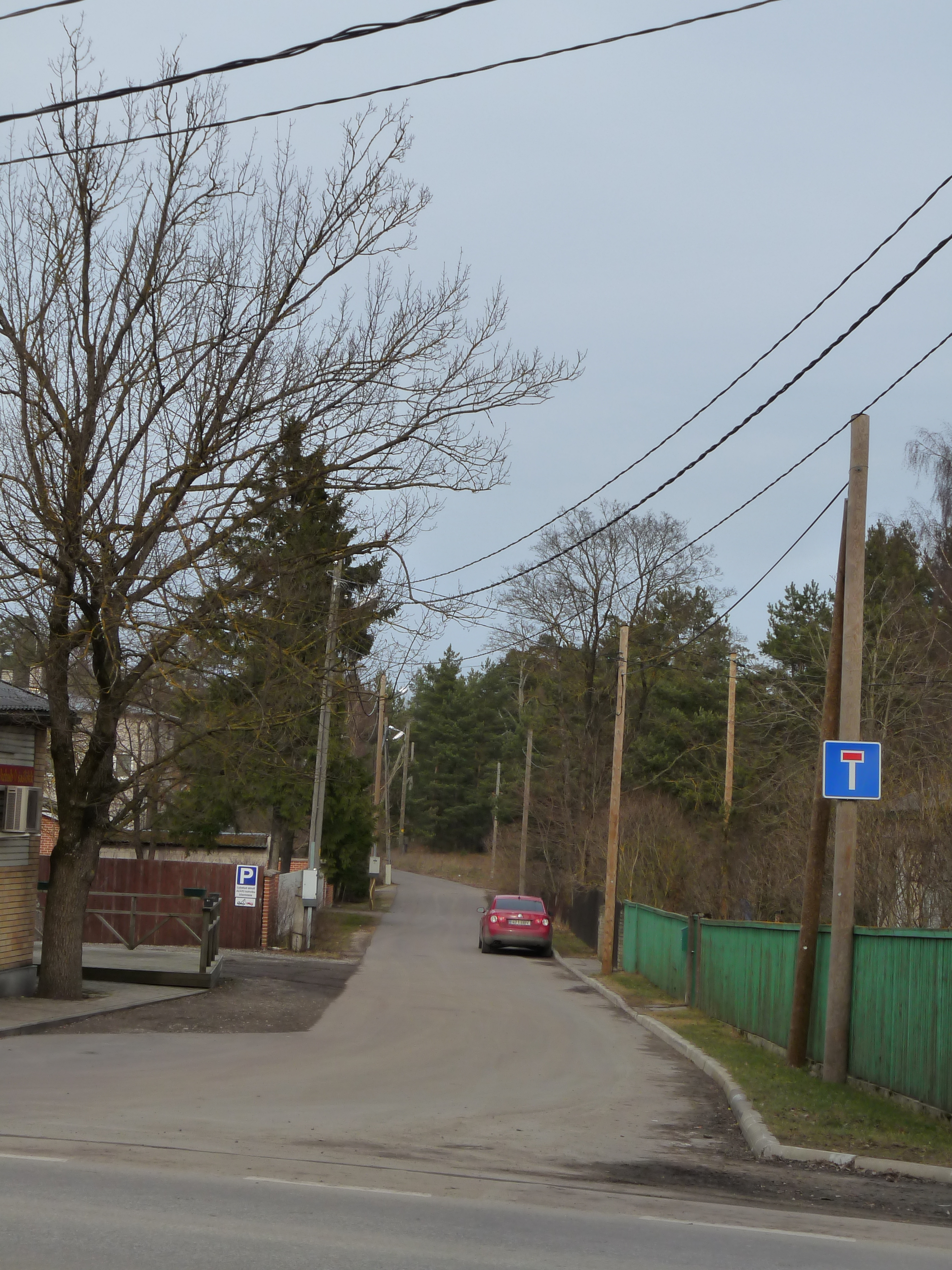 Liivaluite street in Tallinn, Estonia